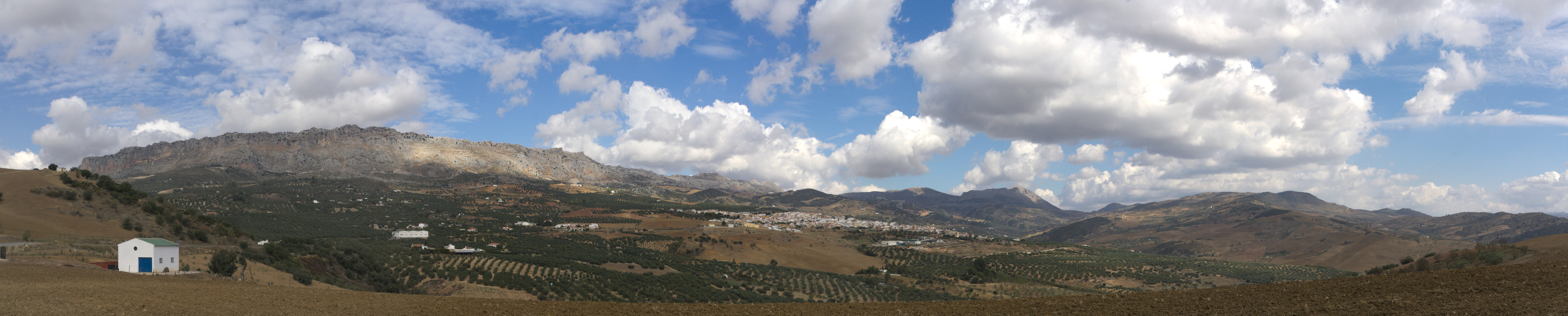 Villanueva de la Concepción and El Torcal Massif